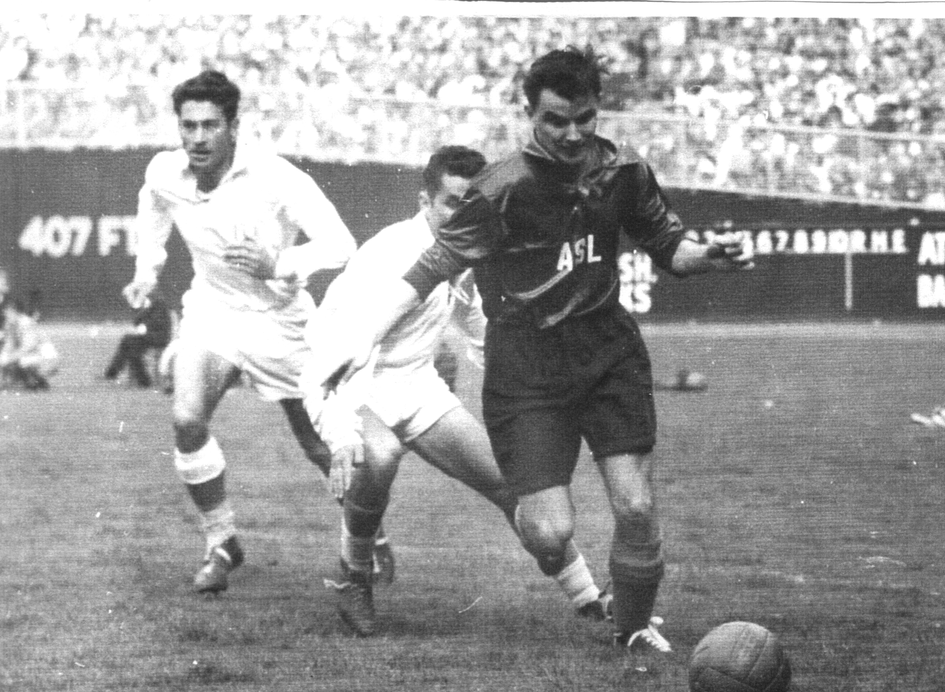 Benny McLaughlin dominating on the field during play with the American Soccer League All Star team in 1947. The ASL was playing against Hapoel of Tel Aviv in a friendly international game at Ebbets Field in New York.